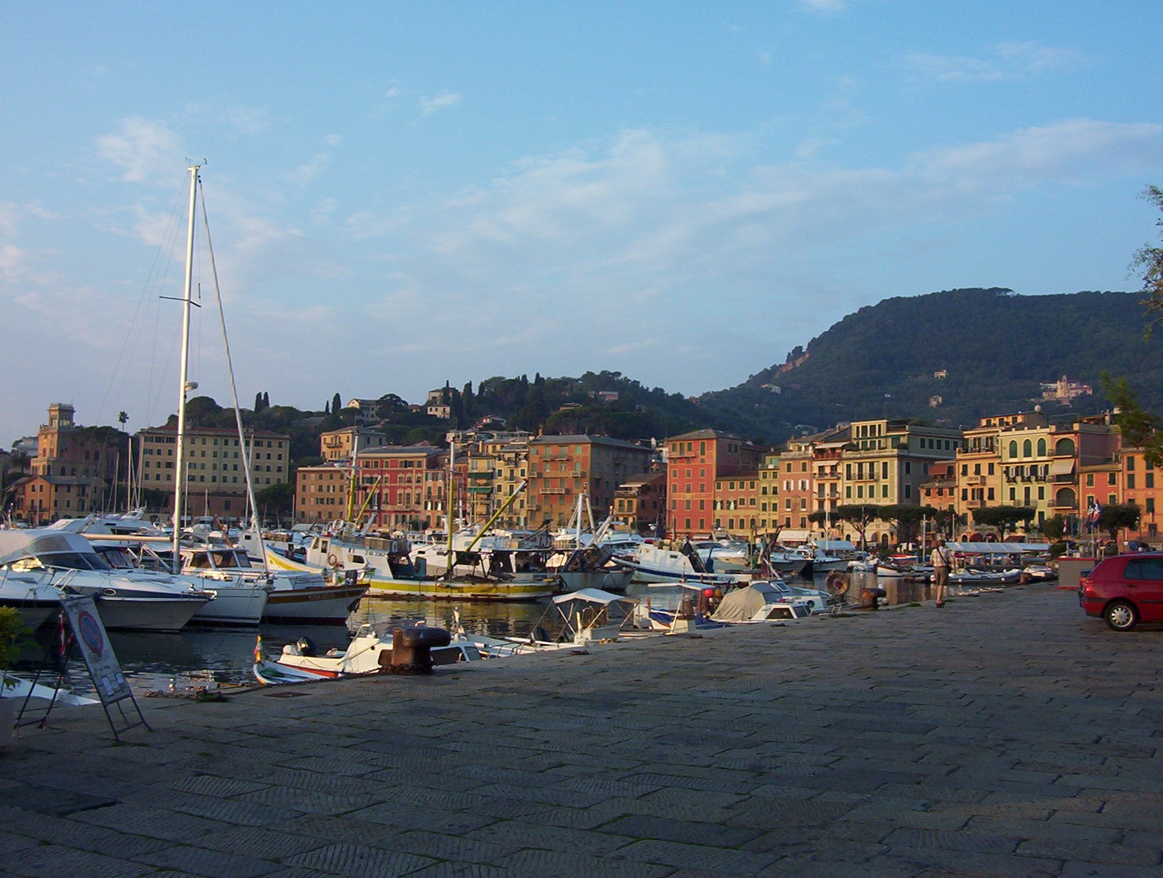 Santa Margherita Ligure (GE) Italy - The haven and the town part called Corte